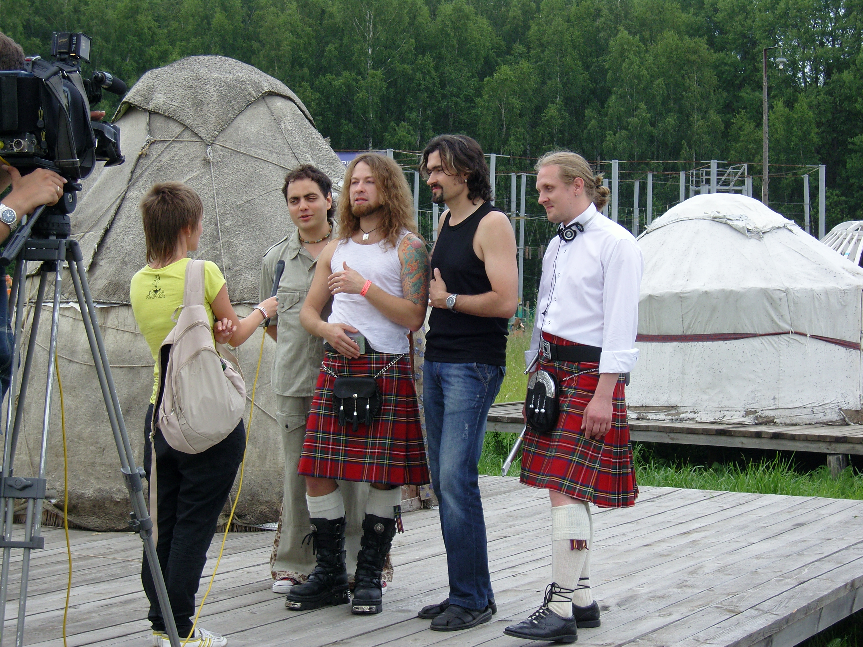 Tintal on Mint-Music Fest